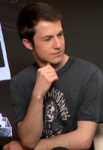 American actor Dylan Minnette